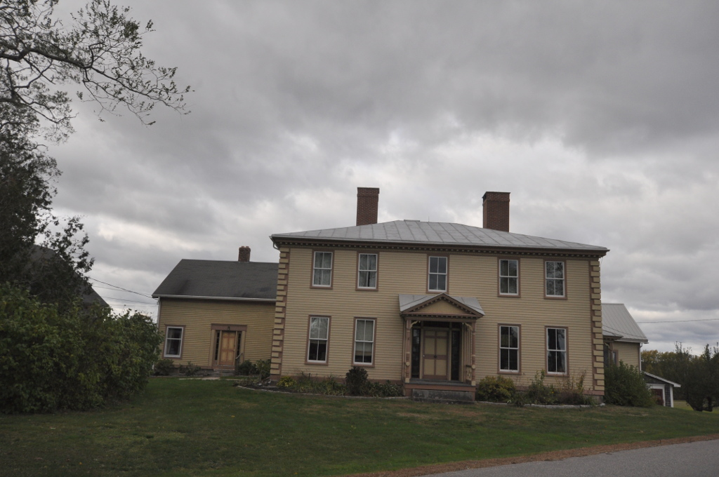 Randall-Hildreth House, Topsham, Maine